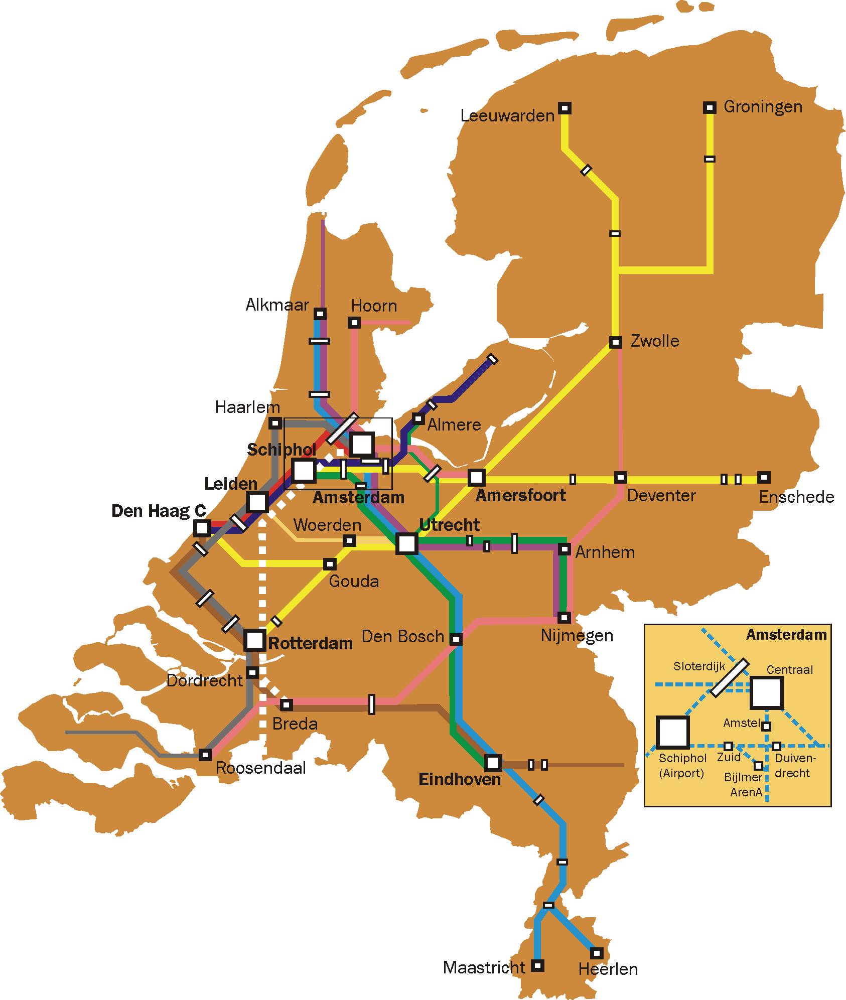 Map of the Dutch Intercity network. Thin lines are used for all-stops services that are a continuation of intercity services (e.g. the Rotterdam-Gouda-Amsterdam leg of the Enkhuizen-Rotterdam trains, and the Roosendaal - Vlissingen leg of the Amsterdam-Vlissingen trains). Further notes: Centraal is omitted, except at Den Haag. Extra intercities Rotterdam-Amersfoort Vathorst are considered part of the regular Rotterdam-Leeuwarden/Deventer connection, even though those trains don't stop at Amersfoort Schothorst or Vathorst. Additional Den Haag-Utrecht services are likewise considered to be part of the regular Den Haag-Groningen/Enschede services, even though these used to run Den Haag-Utrecht-Arnhem. Intercity services Amsterdam-Haarlem-Dordrecht and Amsterdam-Haarlem-Dordrecht-Vlissingen have been combined into one, as have the services from Schiphol via Utrecht to Nijmegen and Eindhoven. All four services mentioned above run 4x per hour, the others 2x per hour. The full complexity of the intercities through Amersfoort is impossible to show, I fear (from Schiphol, The Hague and Rotterdam, to Enschede, Groningen and Leeuwarden - for those last two, half of the trains running as all-stops services after Zwolle). Suggestions are welcome. It is not sure yet whether the Benelux intercity to Brussels will continue to run via Dordrecht-Roosendaal. The map shows the final intended network, when the intercity to Brussels uses the high speed line (in white).